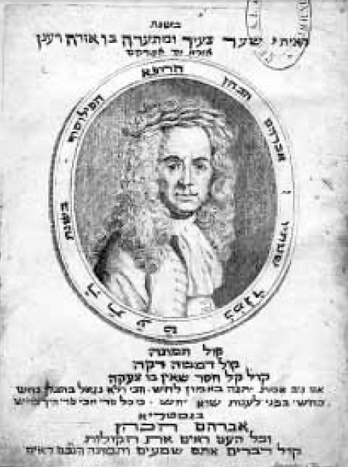 Engraved self portrait of Abraham ben Shabbetai ha-Kohen (Abraham Cohen of Zante) 1719 when he was 49 years old